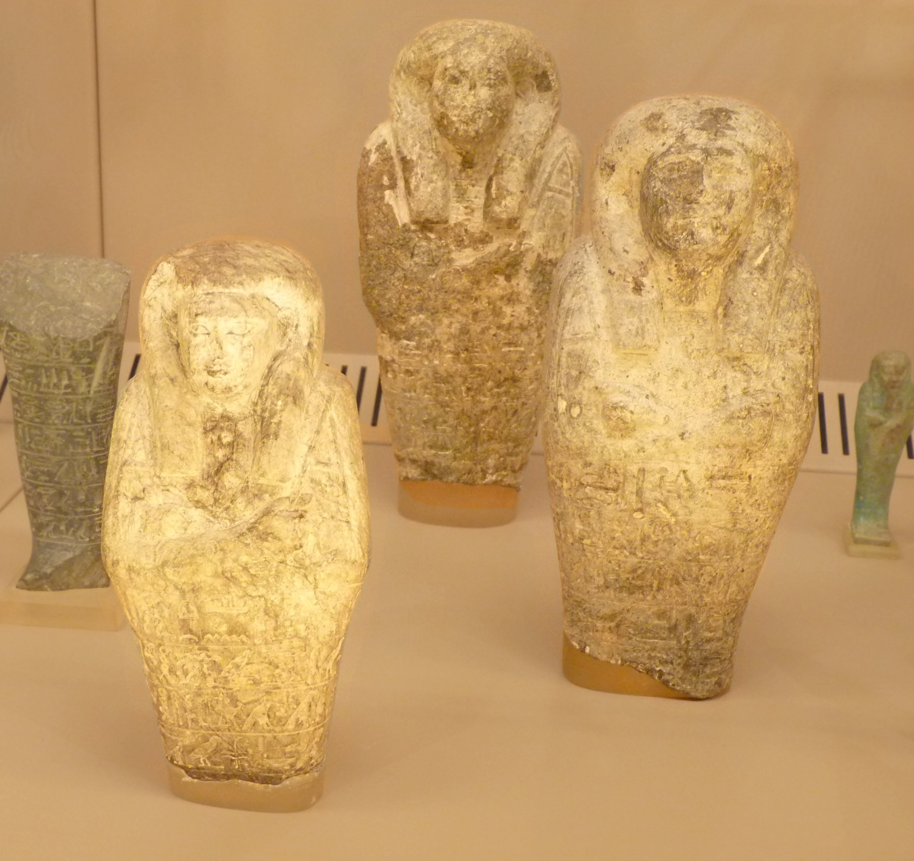 Tree large ushabti of Padiamenopet, royal scribe and chief lector priest, from his immense tomb TT33 at el-Asasif. Like all his ushabti these specimens are broken, probably for some magical reasons. Serpentine, from the Theban necropolis, 25-26th dynasty, Late period. Archeological Museum of Bologna (Italy), Palagi coll., EG 2168-70.